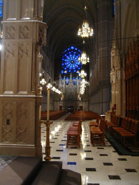 View from the head of the Cathedral Basilica Sacred Heart in Newark New Jersey.